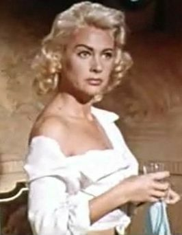 Cropped screenshot of Martine Carol from the trailer for the film Action of the Tiger.